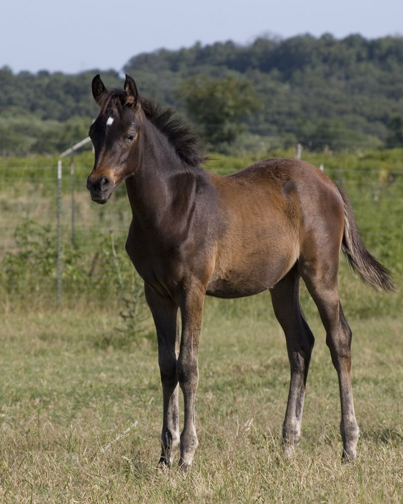 Dark bay Arabian colt standing in a pasture